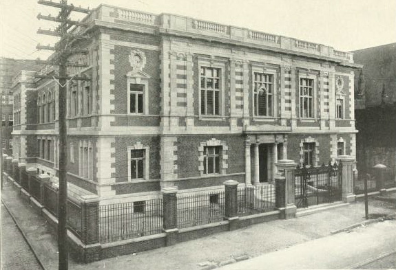 A photo of the College when new from the book "College of Physicians of Philadelphia" by Henry J. Norman. Photo is probably by the College, published by the College, with no copyright. The building is now a National Historic Landmark